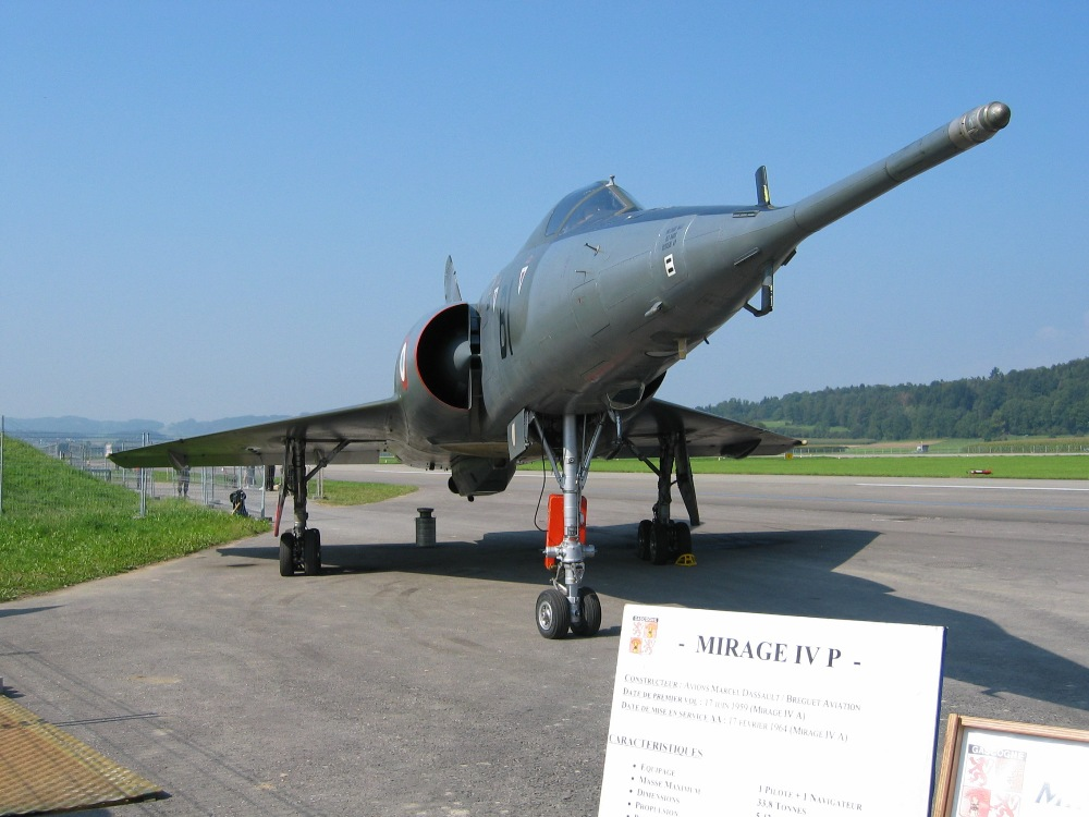 A Dassault-Breguet Mirage IV of the French Air Force